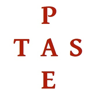 Symbol of the fivefold ministry: Apostles Prophets Teachers Shepherds Evangelists.